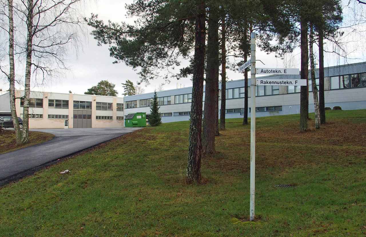 Raision ammattiopisto, vocational school in Vaisaari, Raisio, Finland